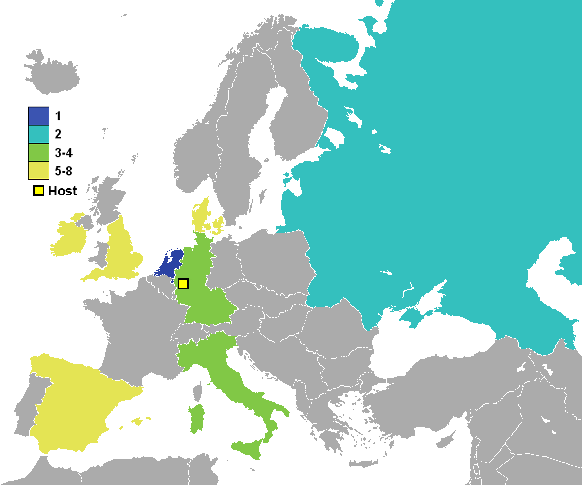 UEFA European Football Championship 1988 final team ranking, showing: Winner (dark blue) Runner-up (light blue) Semifinalists (light green) Quarterfinalists (yellow) Yellow square is host nation (West Germany).